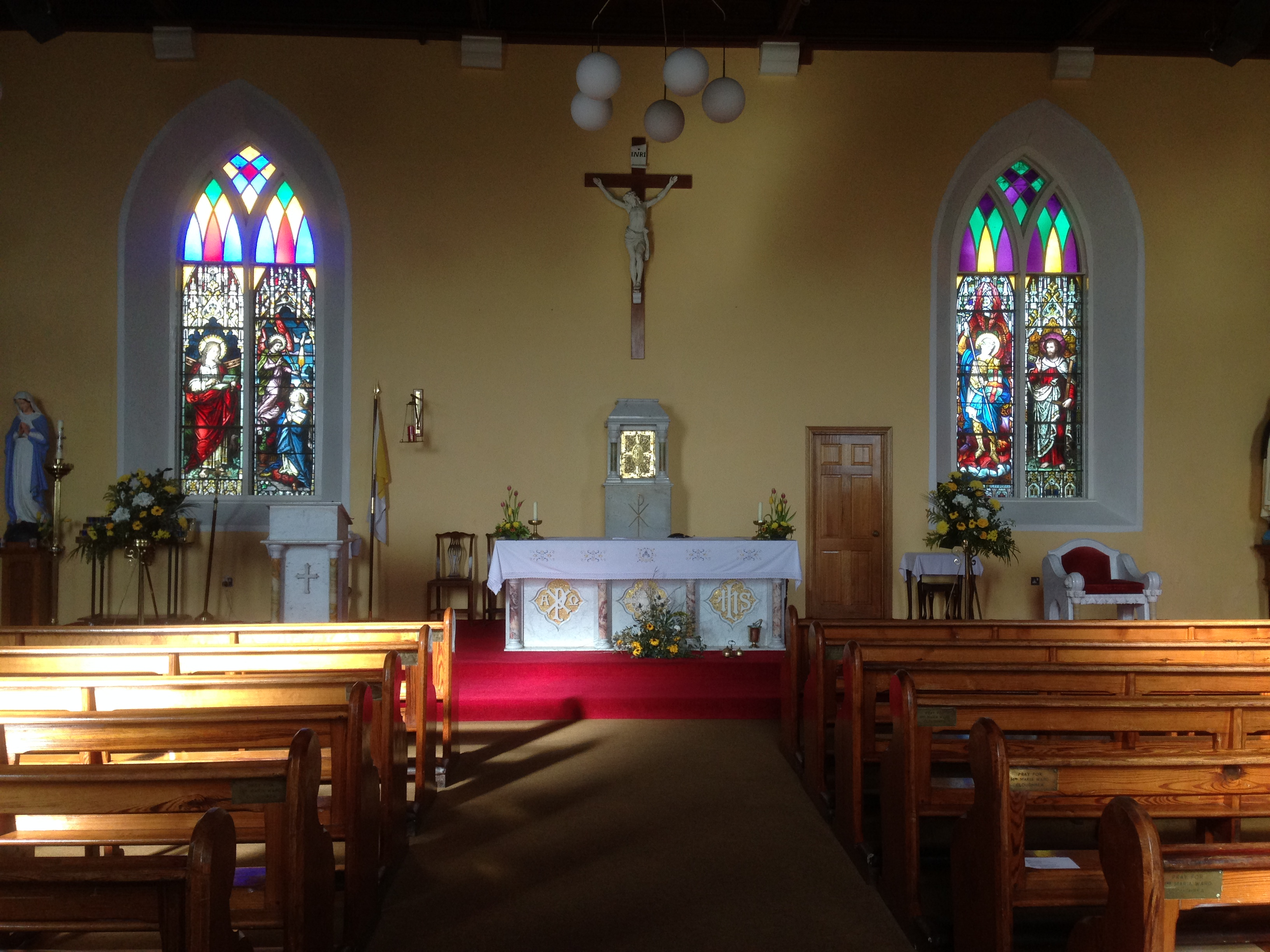 Austere post-Vatican II sanctuary, Ss. Peter & Paul church, Magheracloone, Co. Monaghan, Ireland. Note: Reclaimed stained glass (rectangular panels only) installed by Canon Thomas Mohan during 1995 renovations